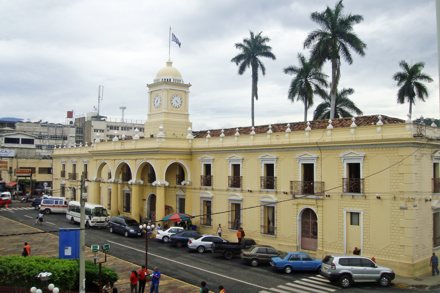 Santa Ana Municipal Palace, Santa Ana city, El Salvador